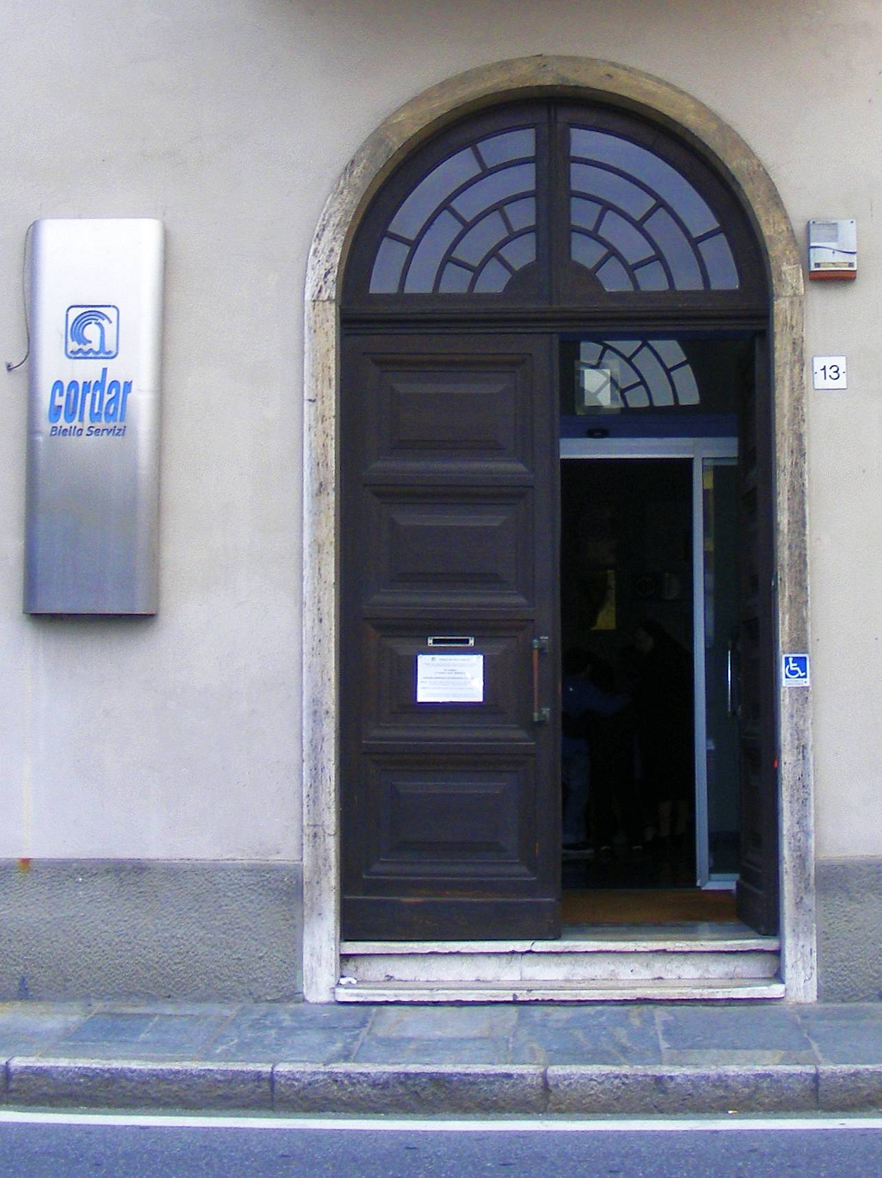 Cordar Biella Servizi offices